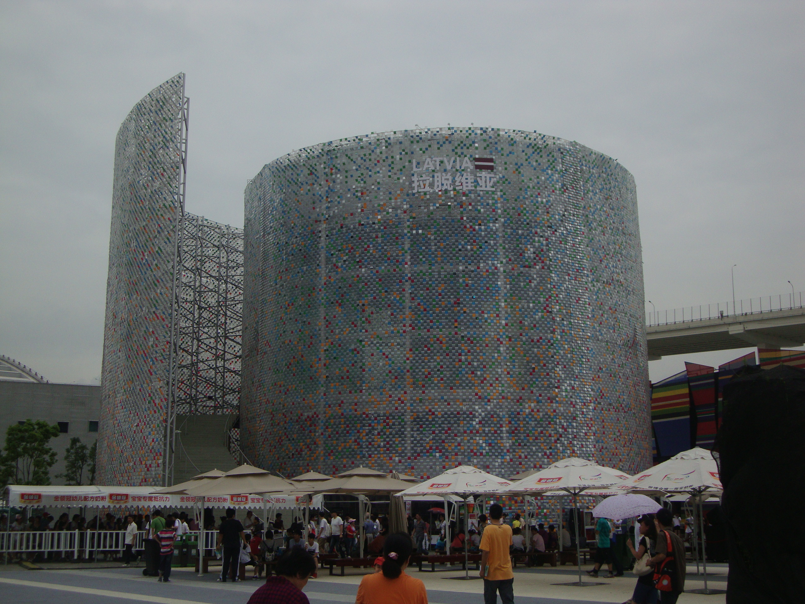 The Latvian Pavilion at the Expo 2010 in Shanghai